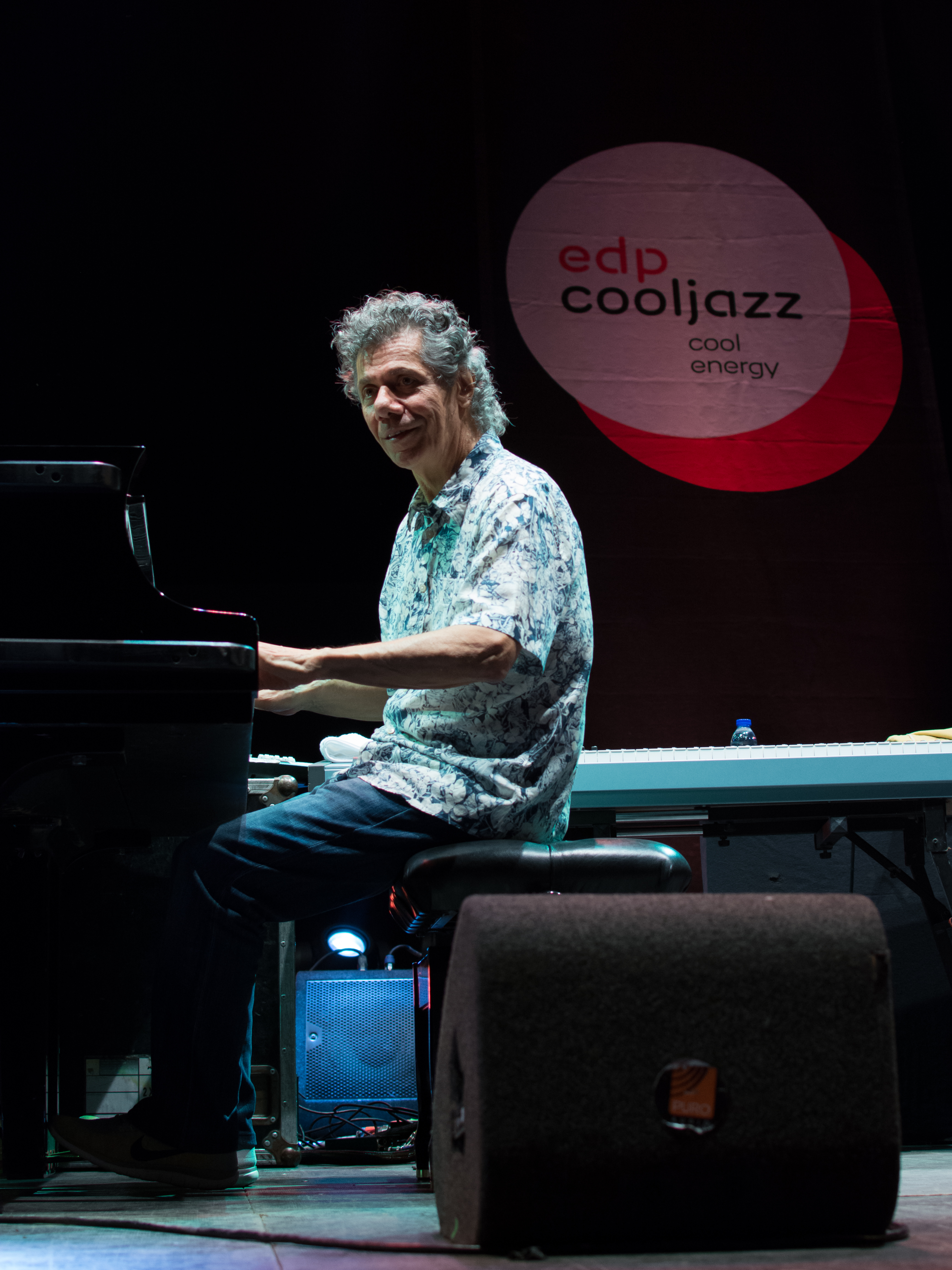 Chick Corea and Herbie Hancock